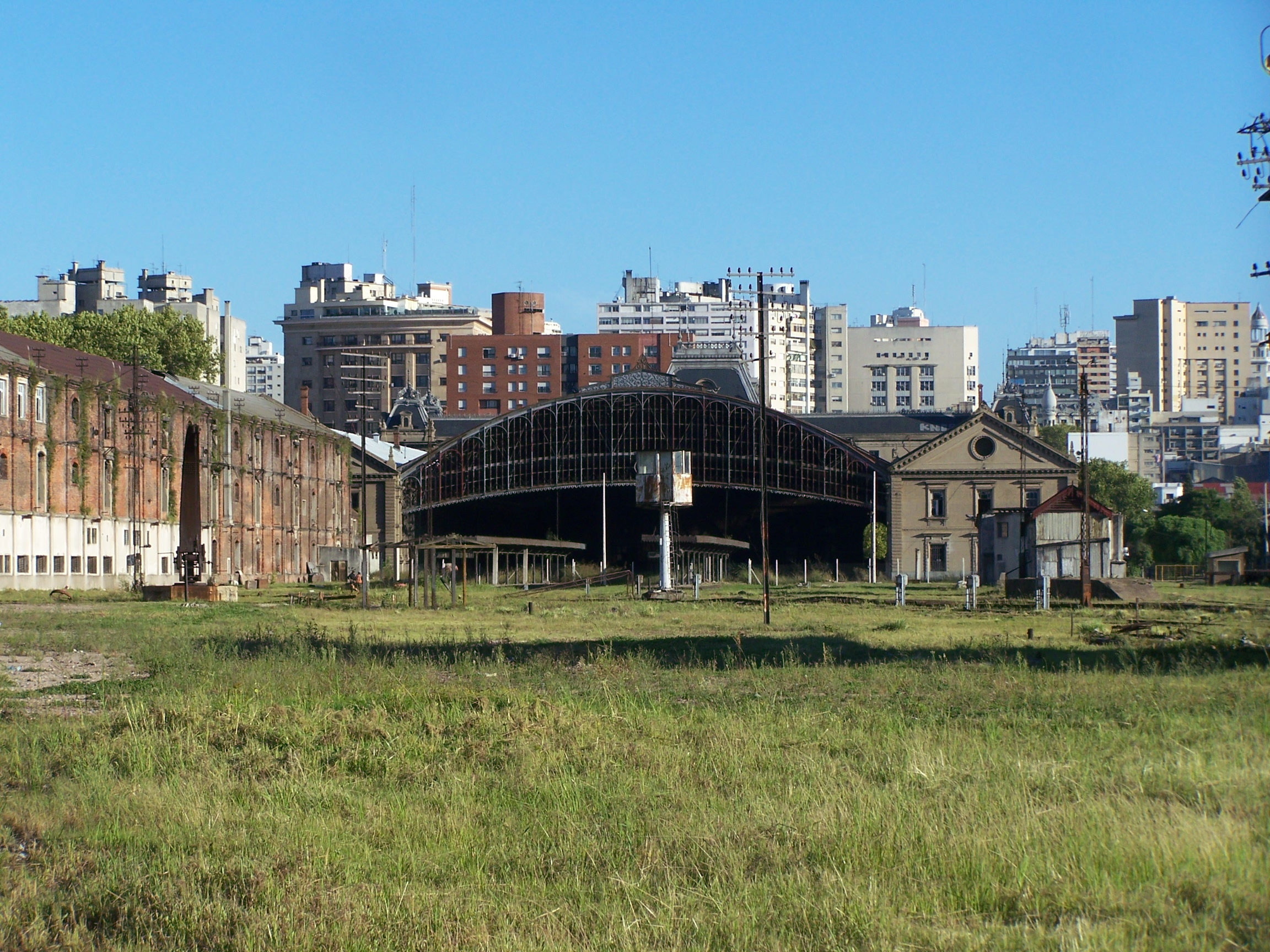 The old central station of Montevideo (Uruguay)